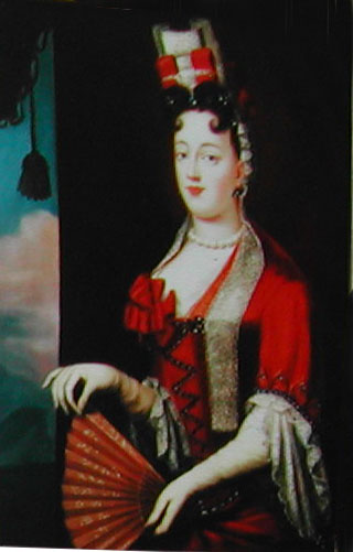 Christine Charlotte Cirksena, unsigned portrait. See this article on the image's restoration for further information (in German).